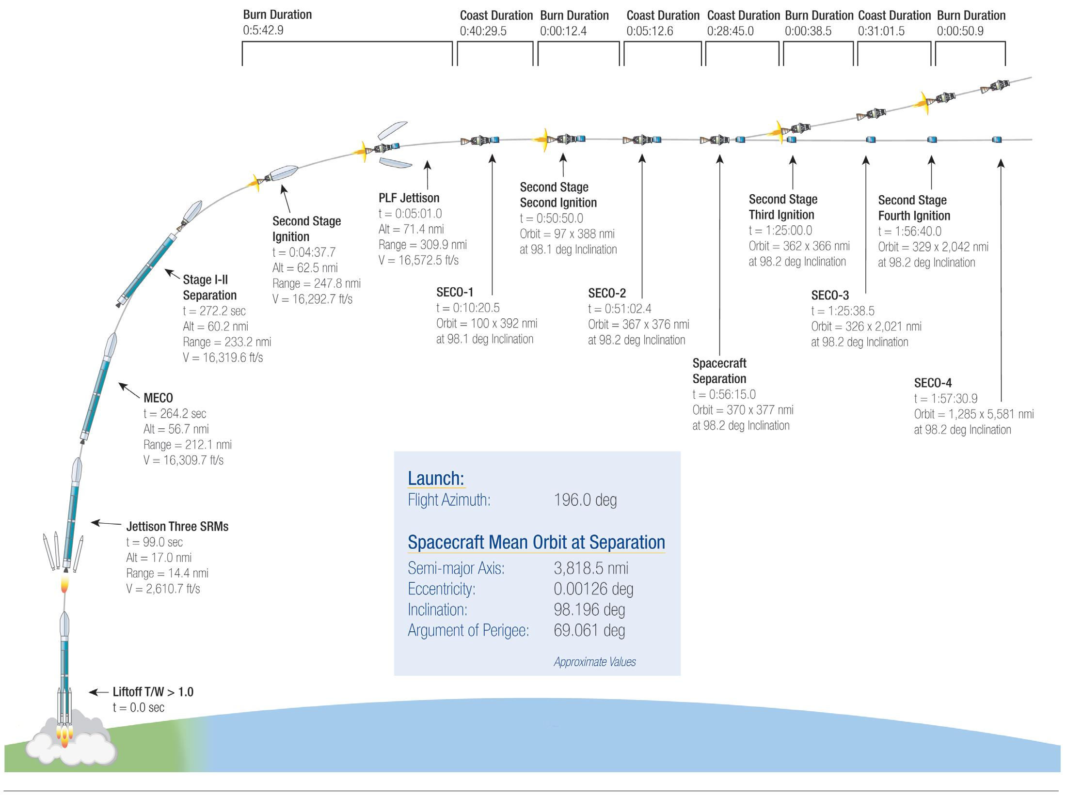 This illustration highlights key events in the launch of NASA's Orbiting Carbon Observatory-2, beginning with its liftoff from Vandenberg Air Force Base in central California.